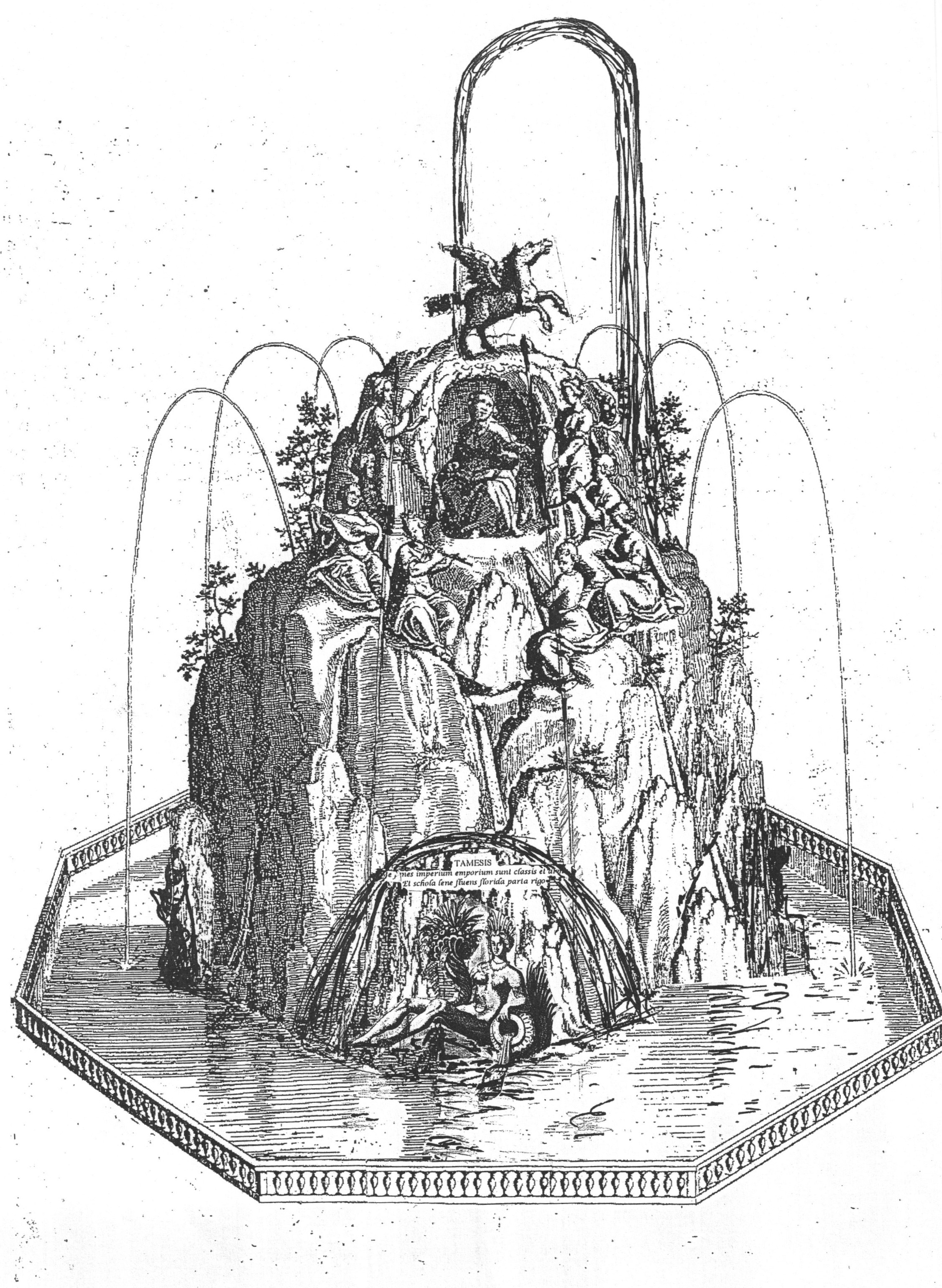 Reconstruction of Salomon de Caus' 1612 fountain for Anne of Denmark in the gardens of old Somerset House